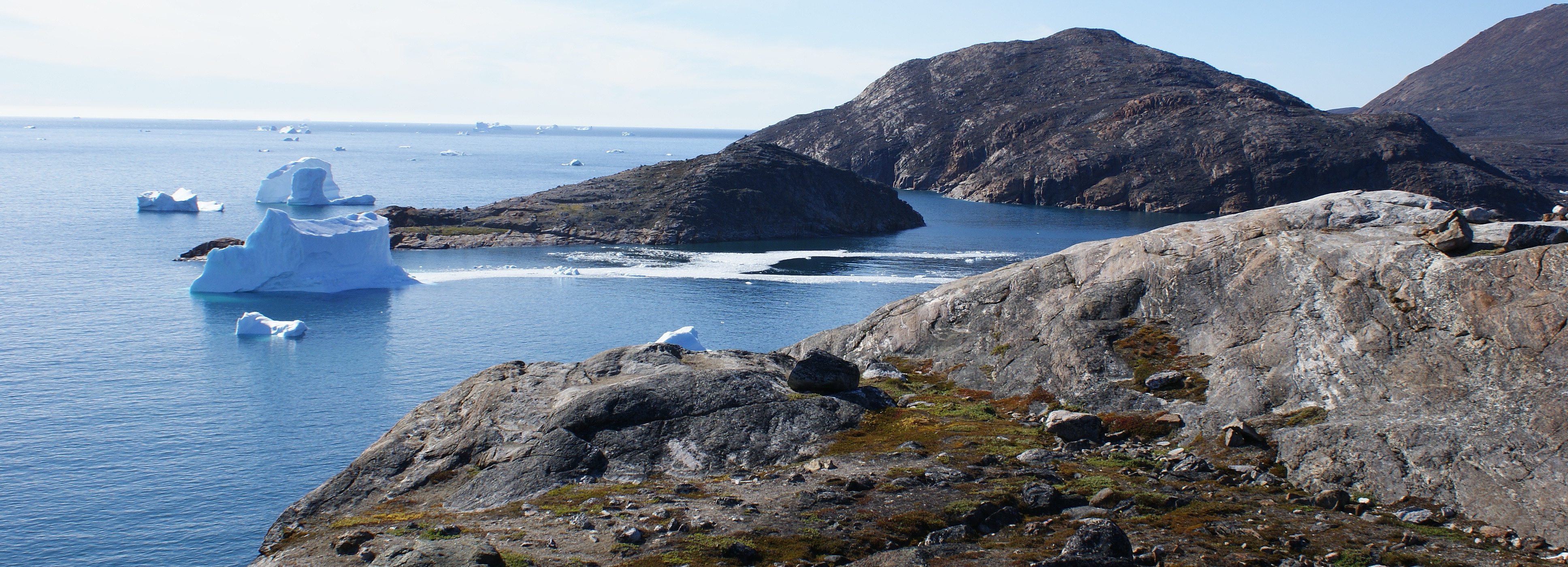 Nuussuaq, Sugar Loaf Bay, Upernavik Archipelago, Greenland. The strait between two rock spurs off Nuussuaq Peninsula protecting the inner inlet: the eastern spur with the heliport, and the western spur (Qallunaaq Arnaq).